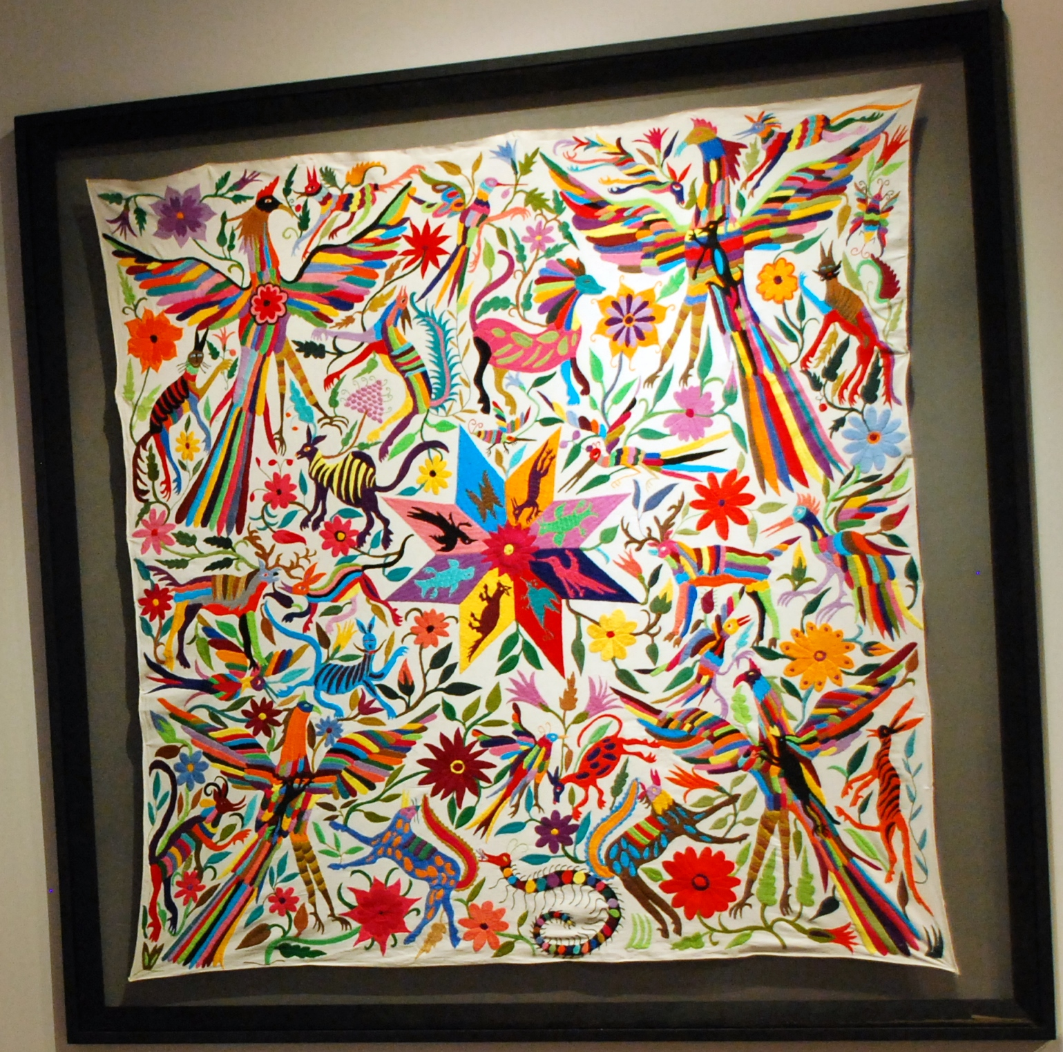 Stone bowls and an elaboratly embroidered wall hanging for the Hidalgo craft exhibition at the Museo de Arte Popular in Mexico City